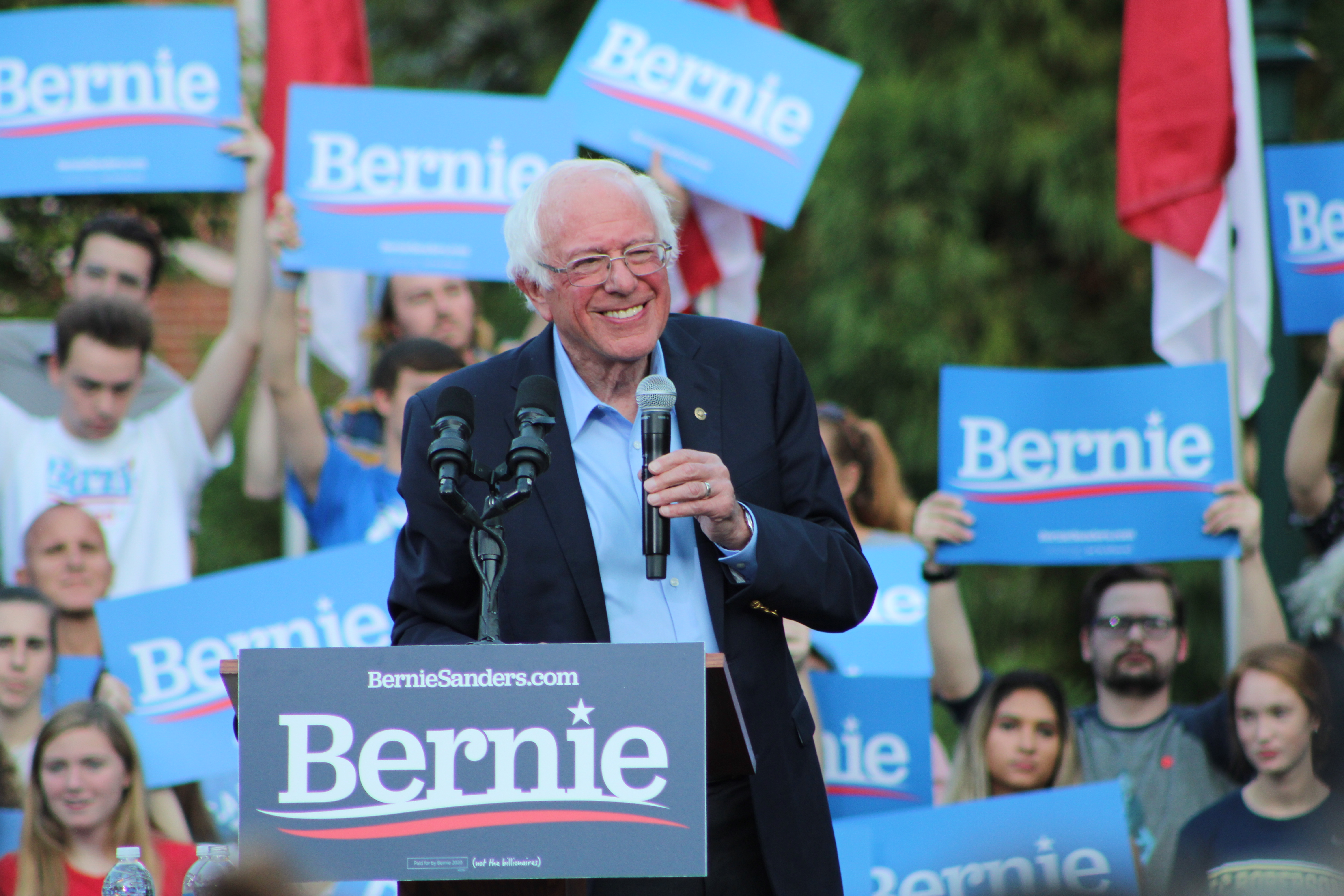 Senator Bernie Sanders' speaks at UNC-Chapel Hill's Bell Tower Amphitheater on September 19, 2019